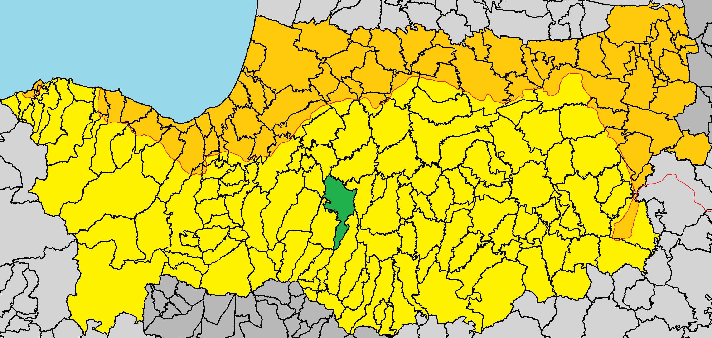 Agia Marina in Nicosia District.